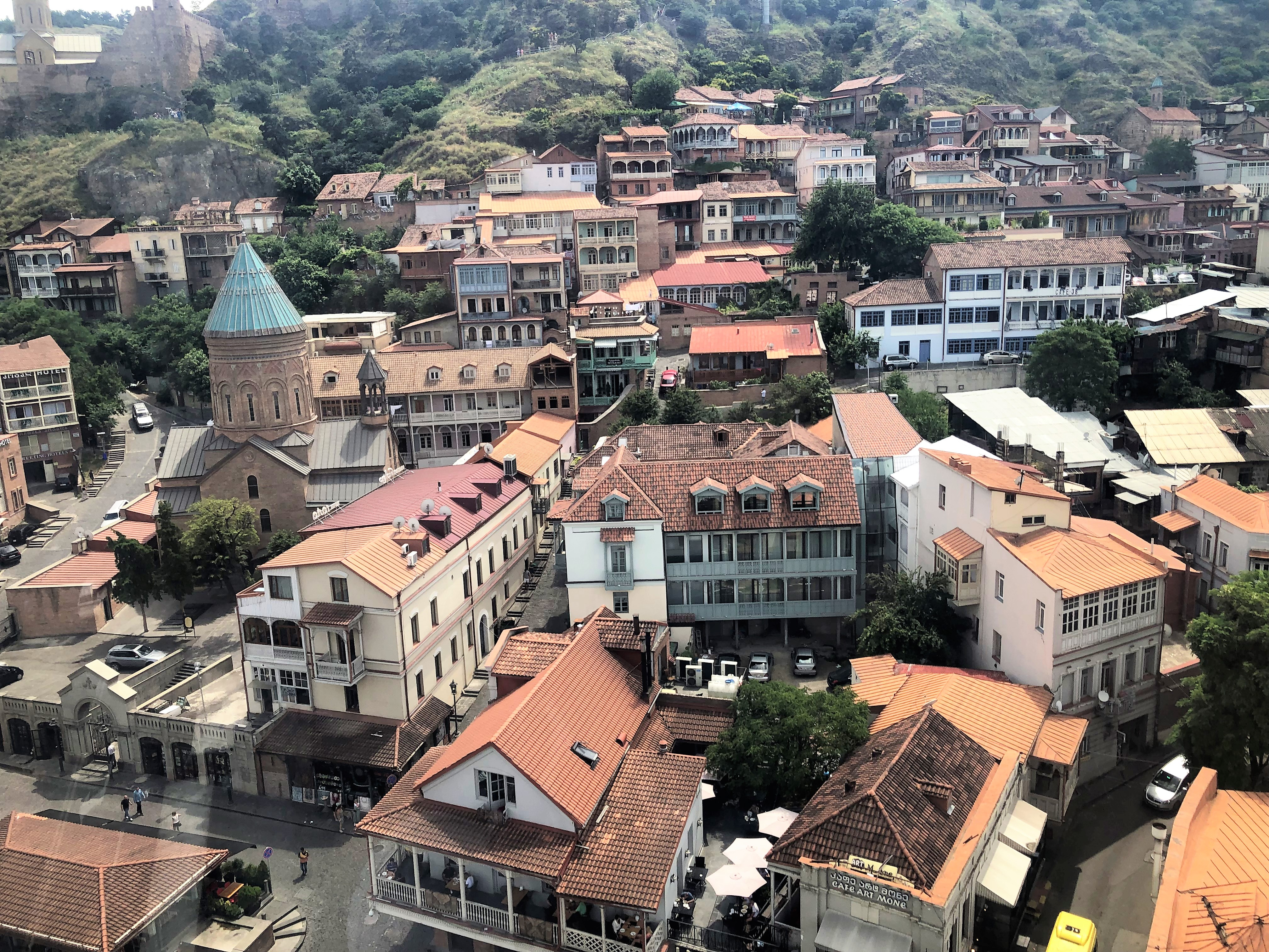 Panoramic view of Old Tbilisi